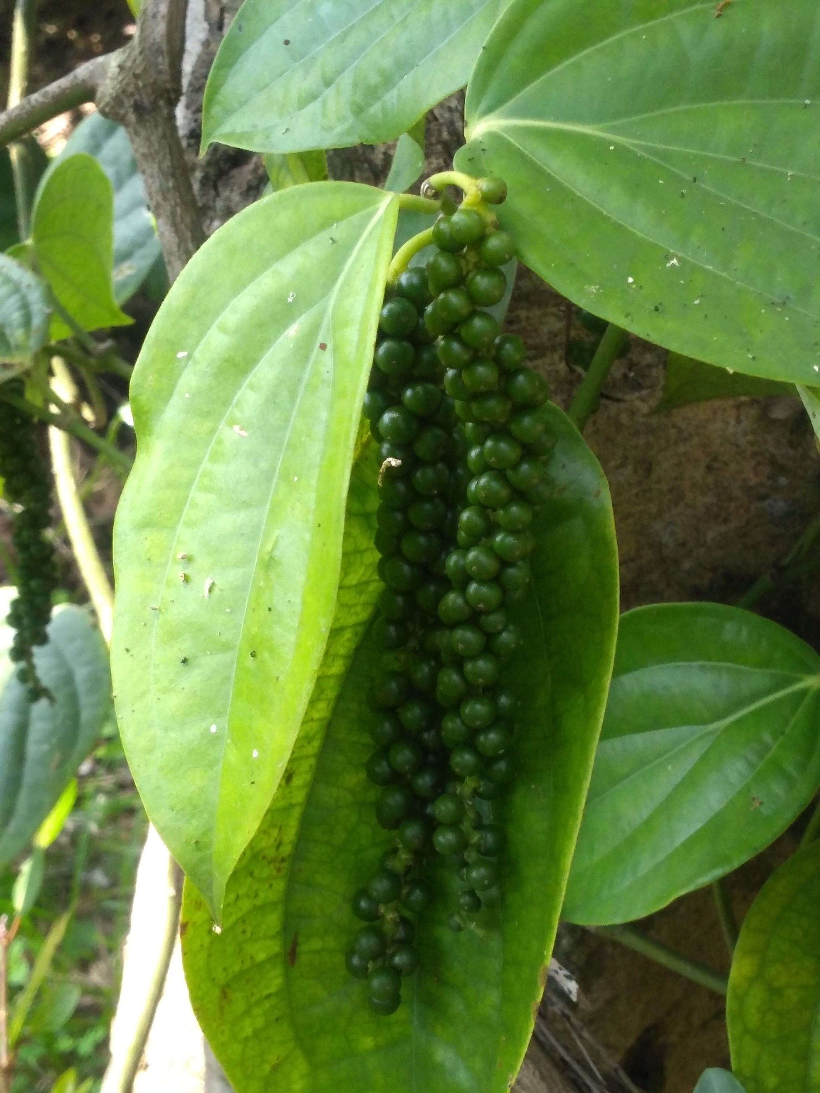 Black Pepper Plant